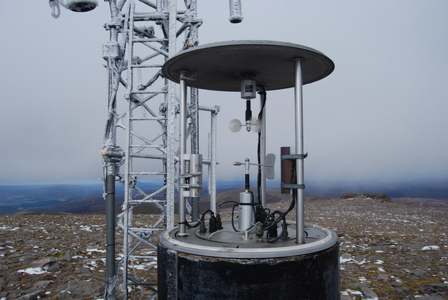 Cairngorm radio mast and weather station. Image showing automatic weather station open to the elements, recording data briefly before retracting.